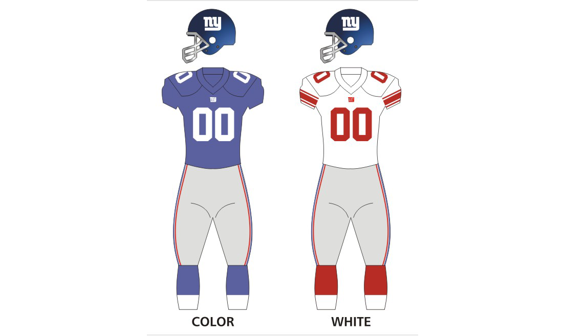 The uniforms of the New York Giants since the 2005 NFL season.